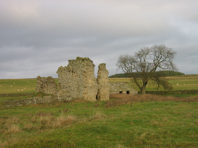 Little Swinburne Tower. Keys to the Past Web Site: This tower stands in a sheltered position on high ground in the valley of Dry Burn. Although much stone has been taken from the building it is still a dramatic ruin. It once stood three floors high, and was probably built in the 15th century as a defence against raiding from Scotland